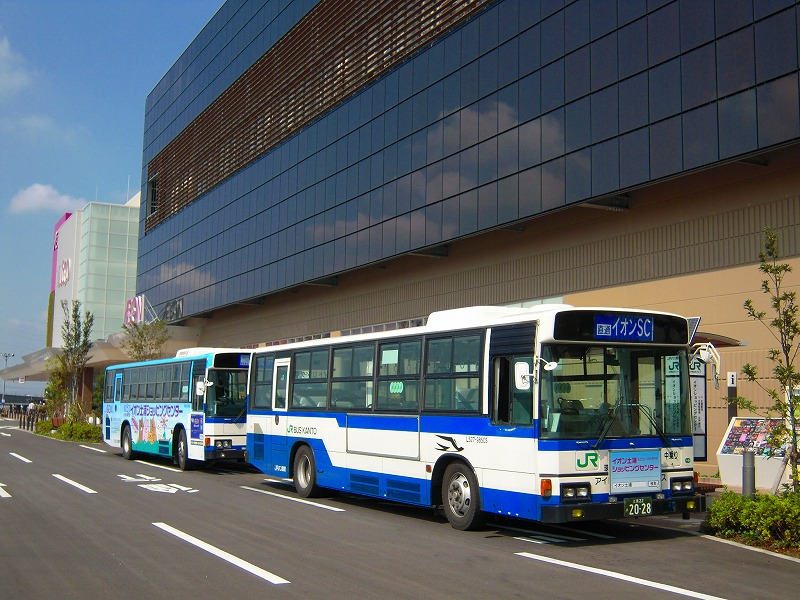 JR bus Kanto Route bus Tsuchiura station(JR Joban line) - AEON Tsuchiura shopping center